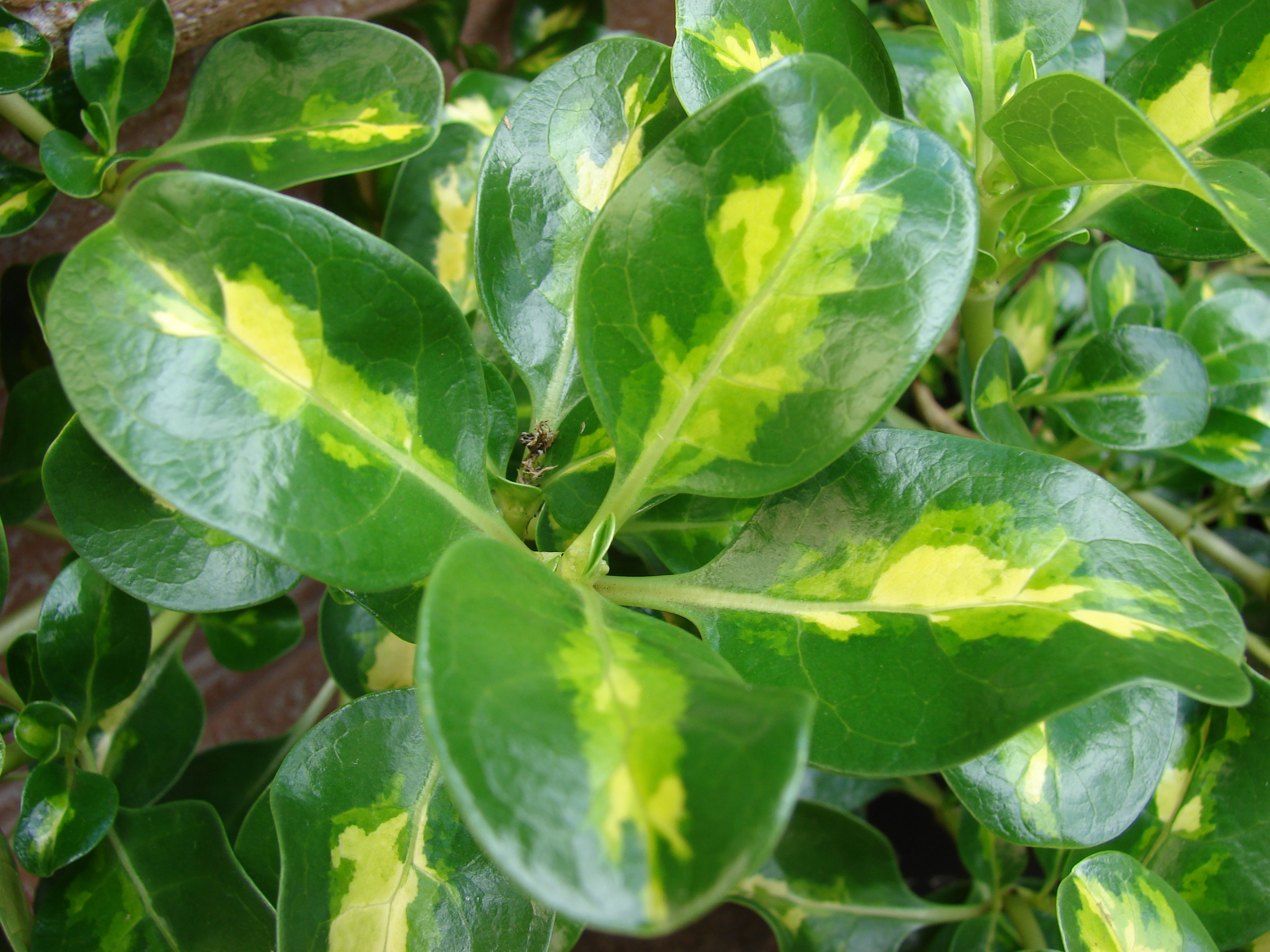 Coprosma repens (leaves). Location: Maui, Kula Ace Hardware and Nursery